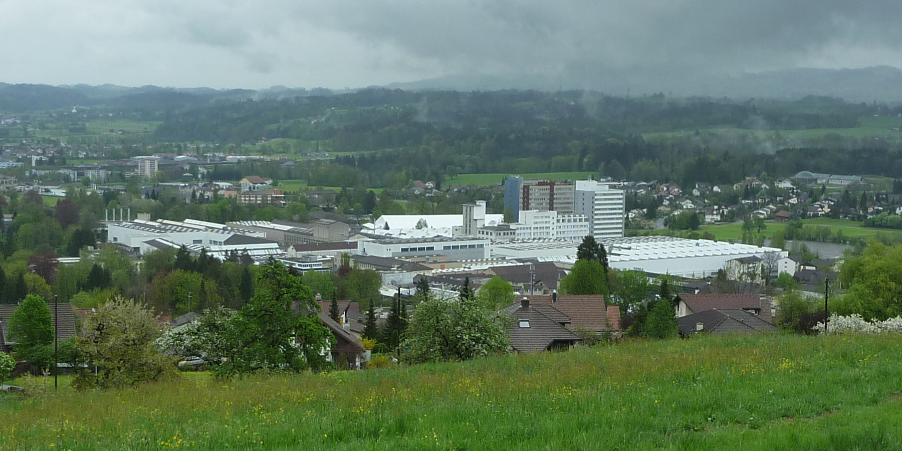 Main plant of Uzwil's biggest company Bühler AG